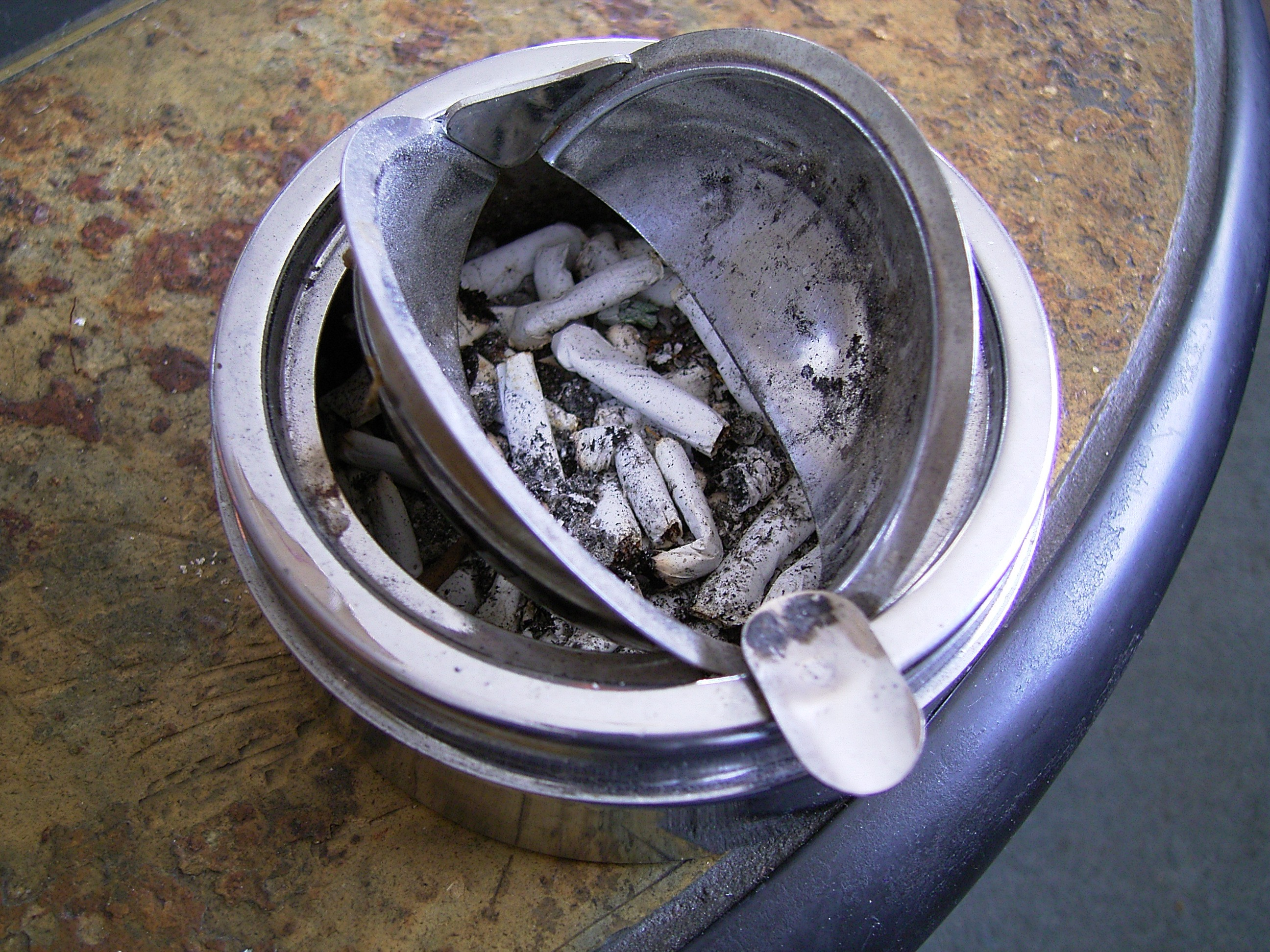 An Ashtray with a mechanic to avois contact with old ashes